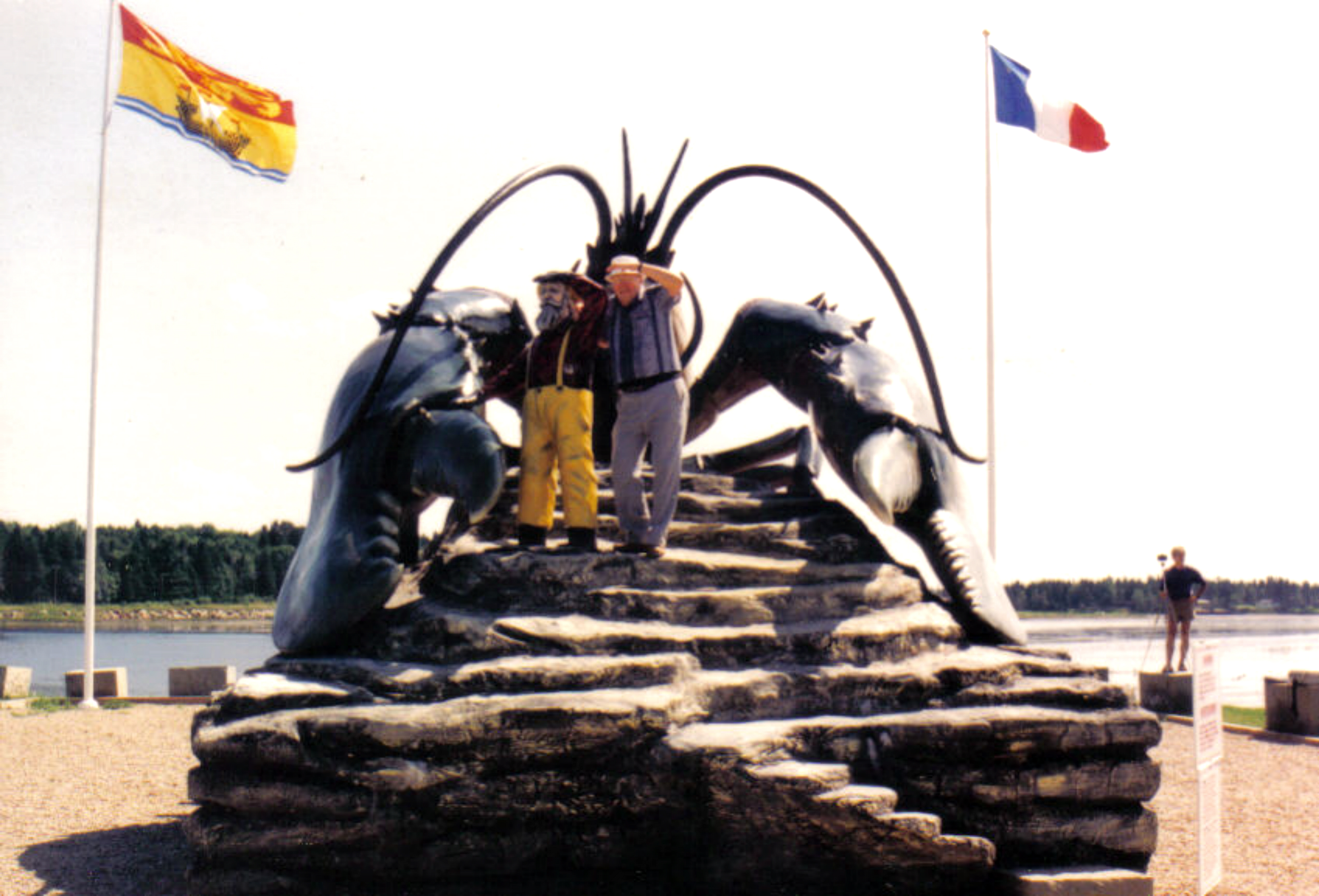 Winston Bronnum, Naturalist Sculptor, Shediac NB